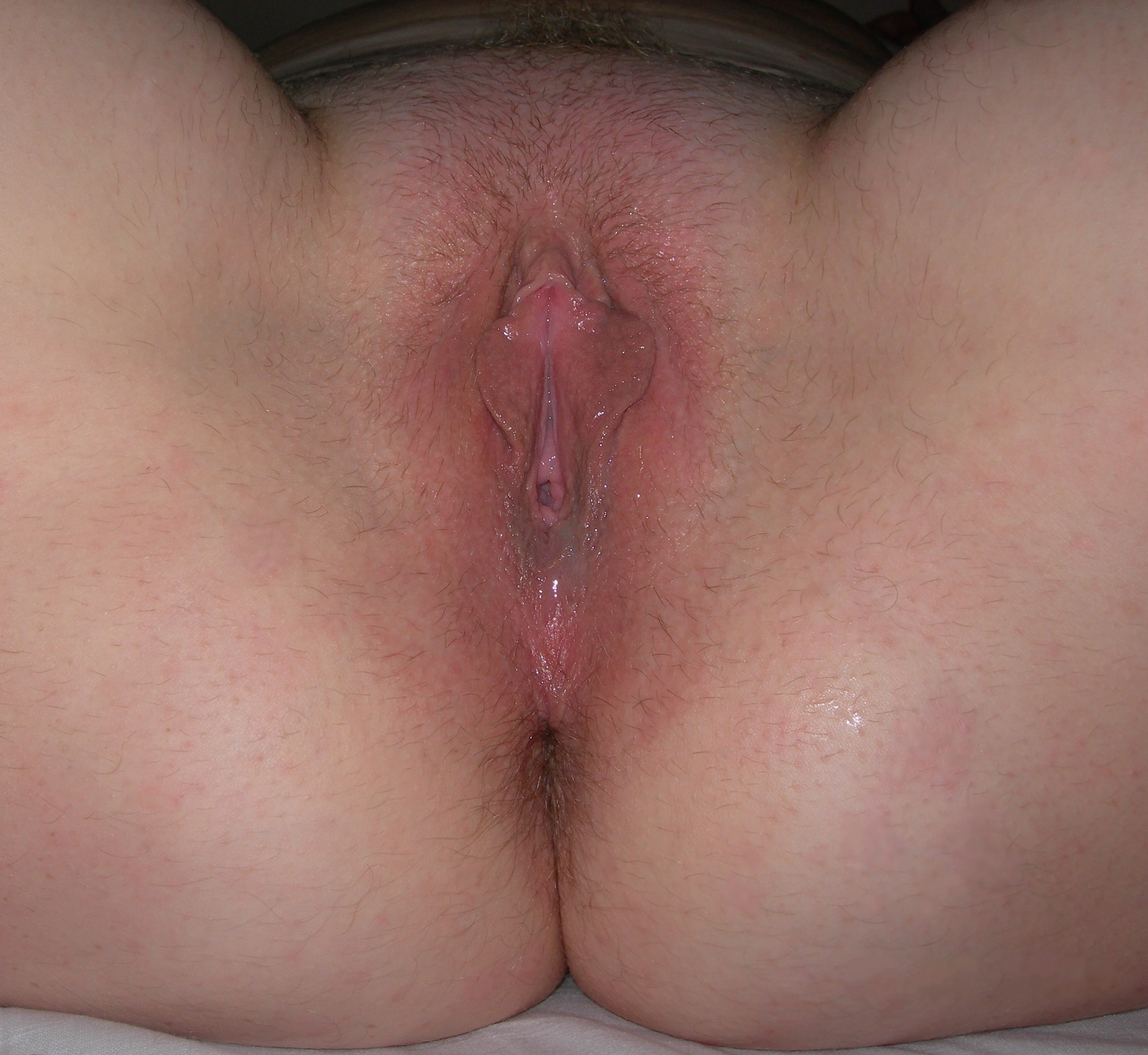 Female Genital Organs (frontal view) detailed macro